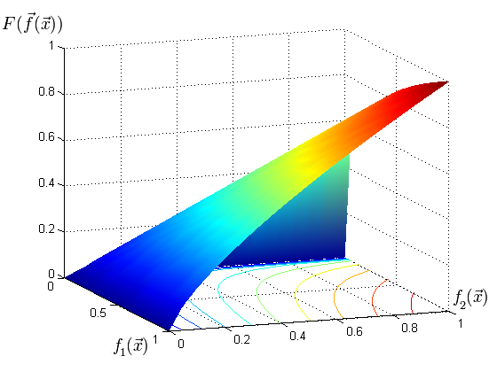 General utility for desicion making. Multiplicative one.